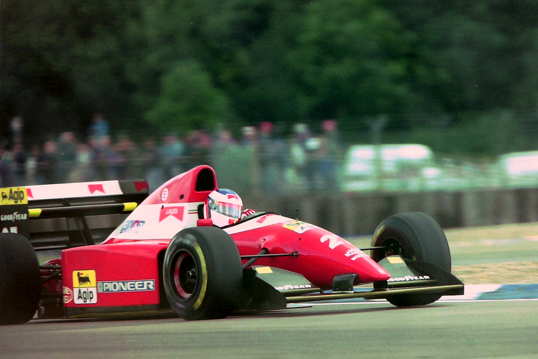 Jean Alesi - Ferrari F93A during practice for the 1993 British Grand Prix